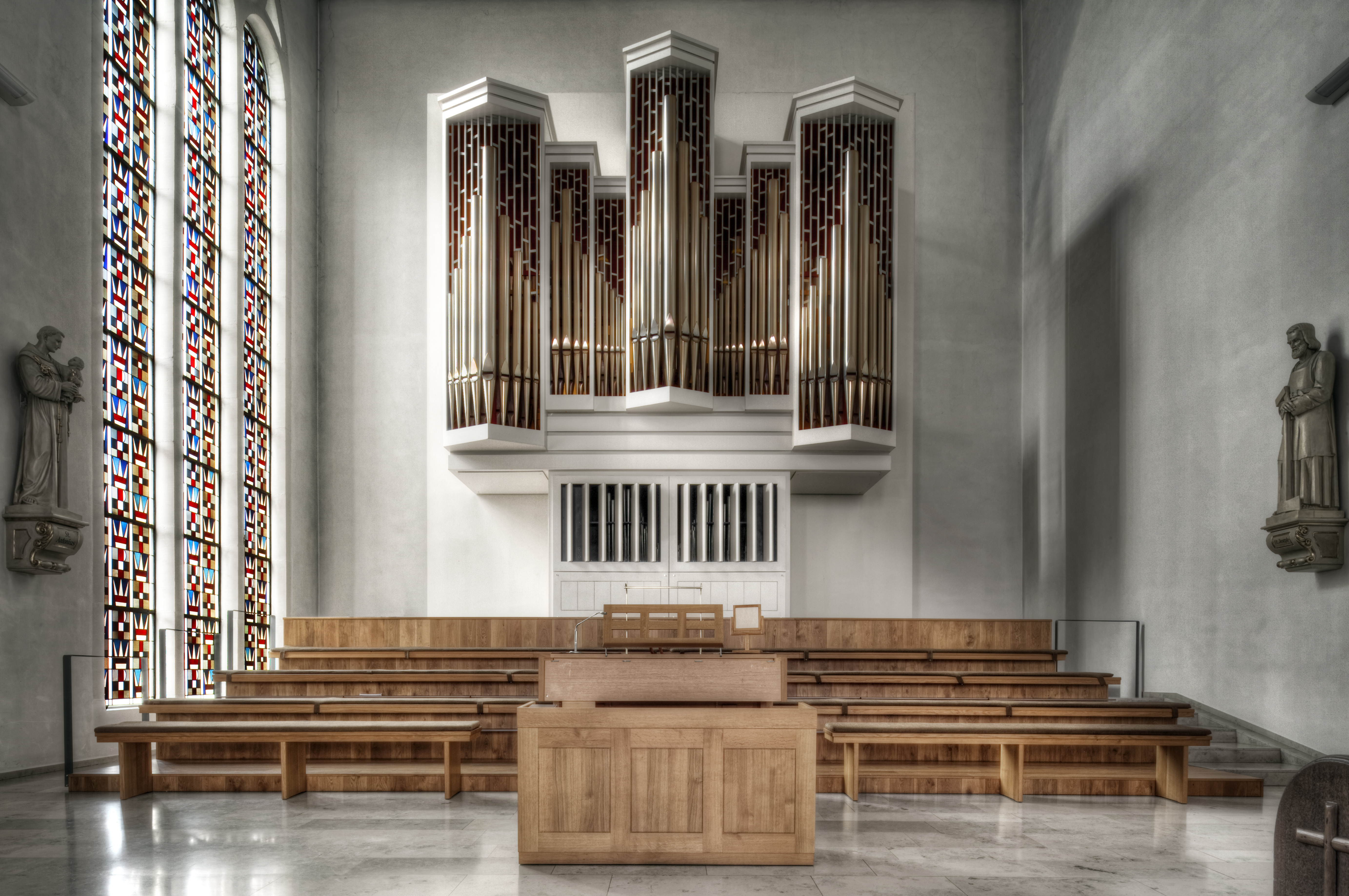 Alstätte organ